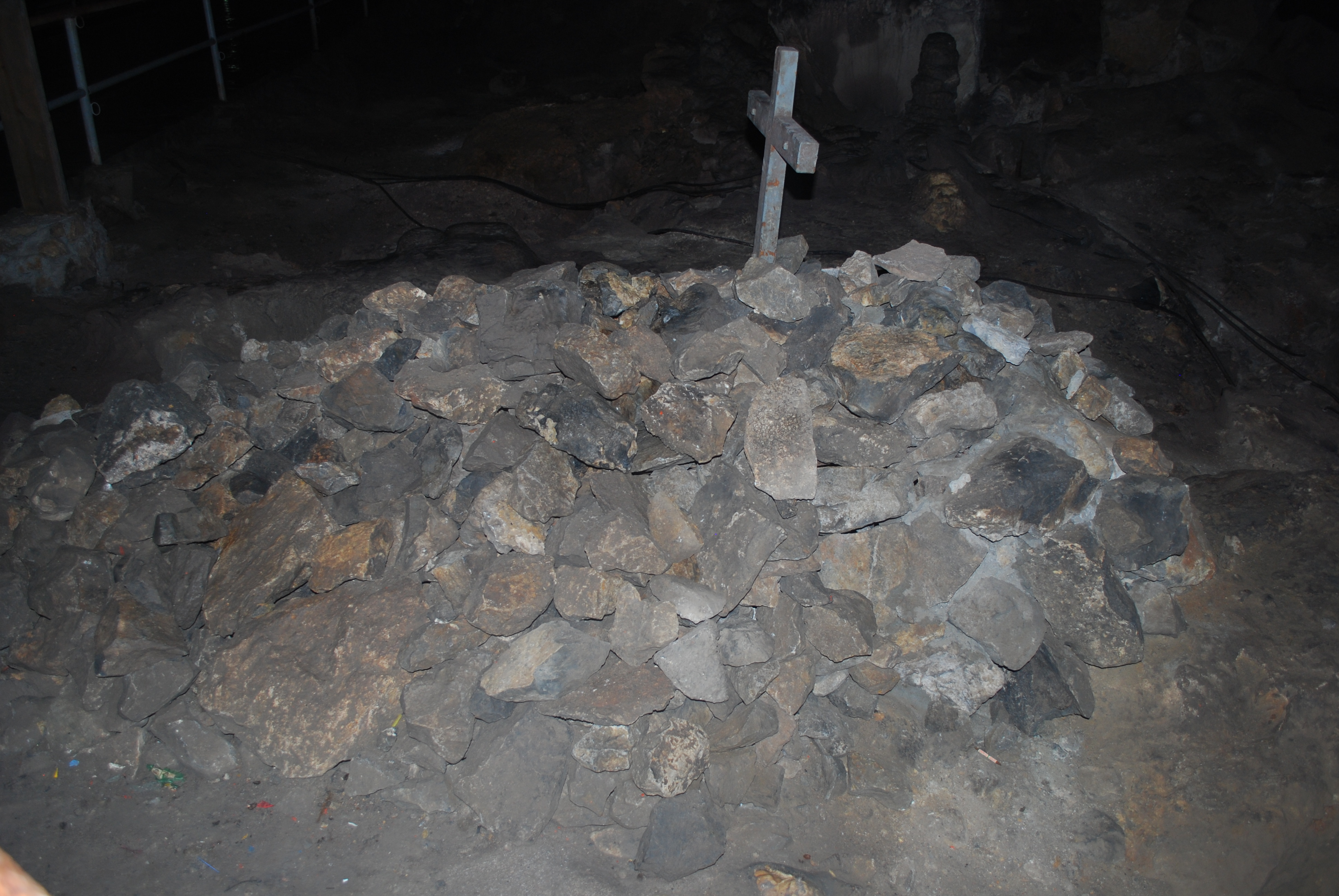 Grave supposedly of a lost British explorer and his dog at Cacahuamilpa Caverns in Guerrero state, Mexico